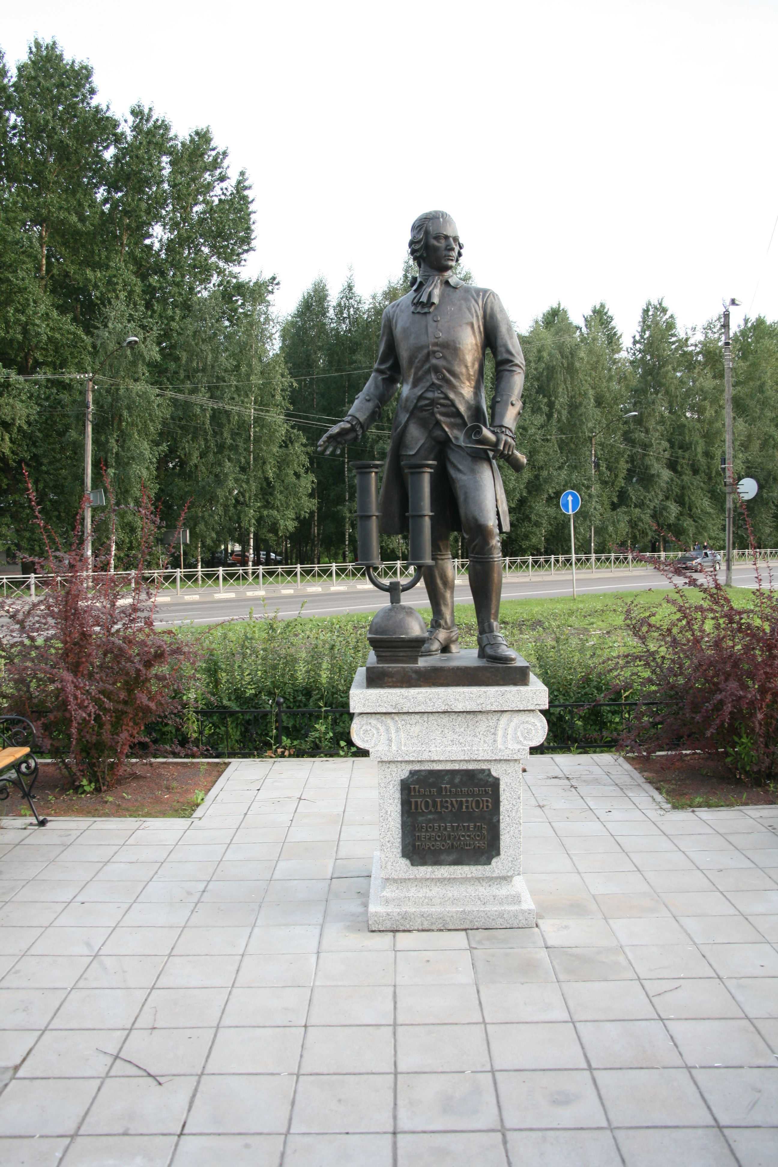 Statue of Ivan Polzunov in Veliky Novgorod, near the railroad, south of the station. Full view